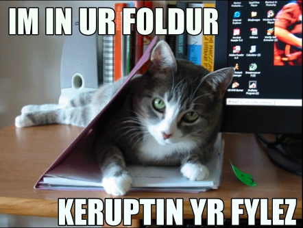 My first lolcat